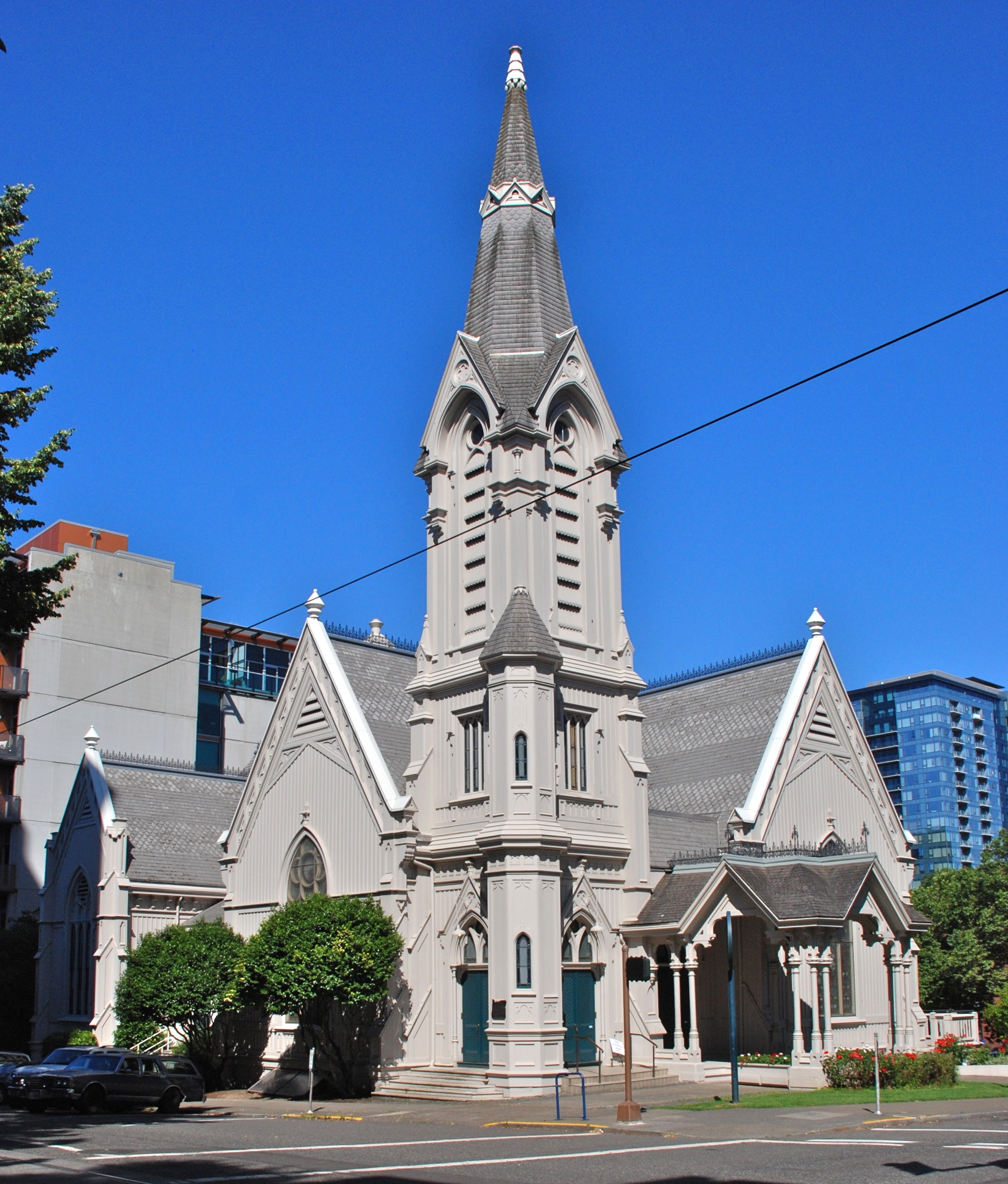 The Old Church, in downtown Portland, Oregon, originally the Calvary Presbyterian Church, was built in 1882 and is Portland's oldest church building on its original site. It is listed on the U.S. National Register of Historic Places.